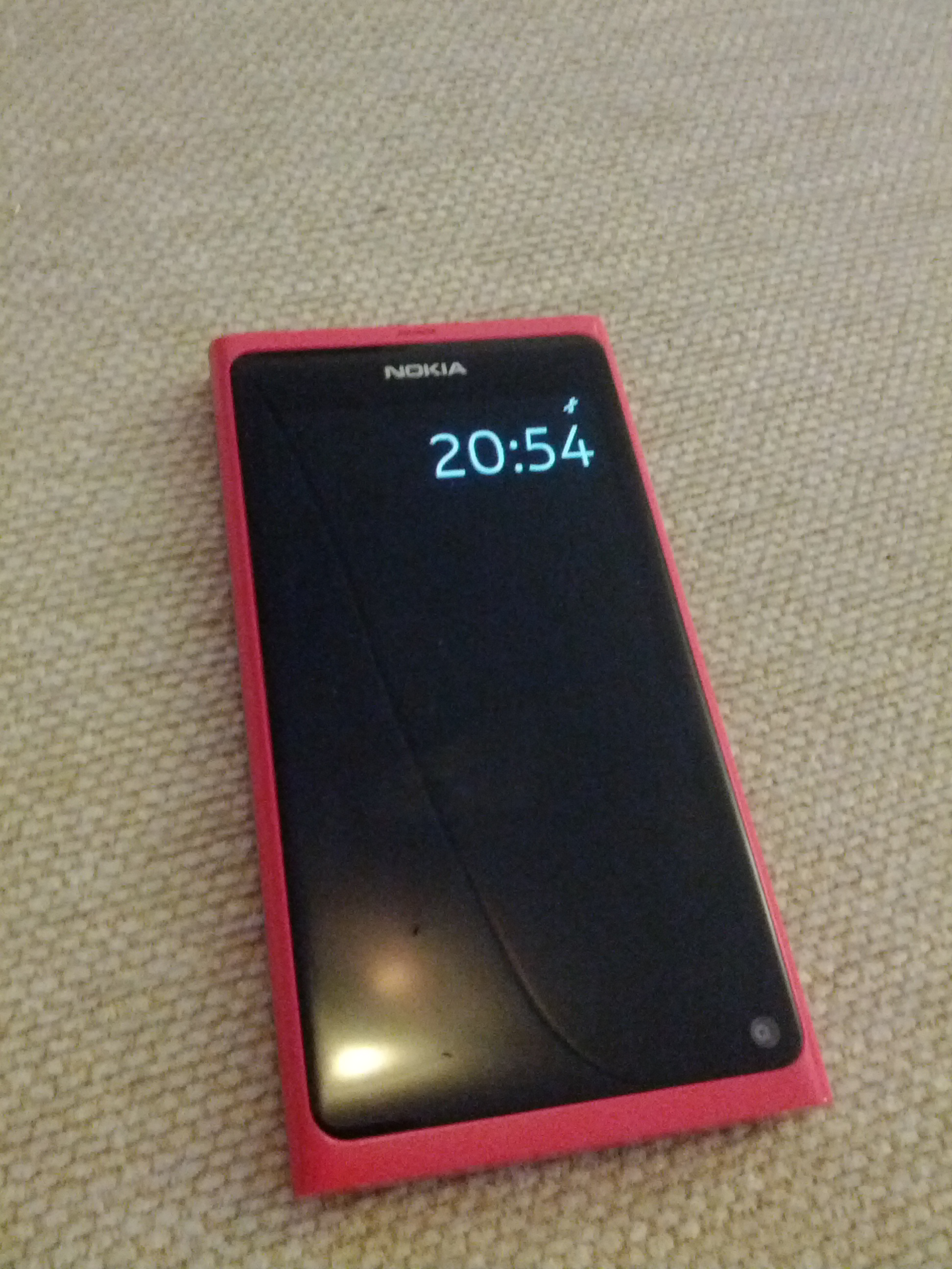 Nokia N9, test upload with Android commons uploader